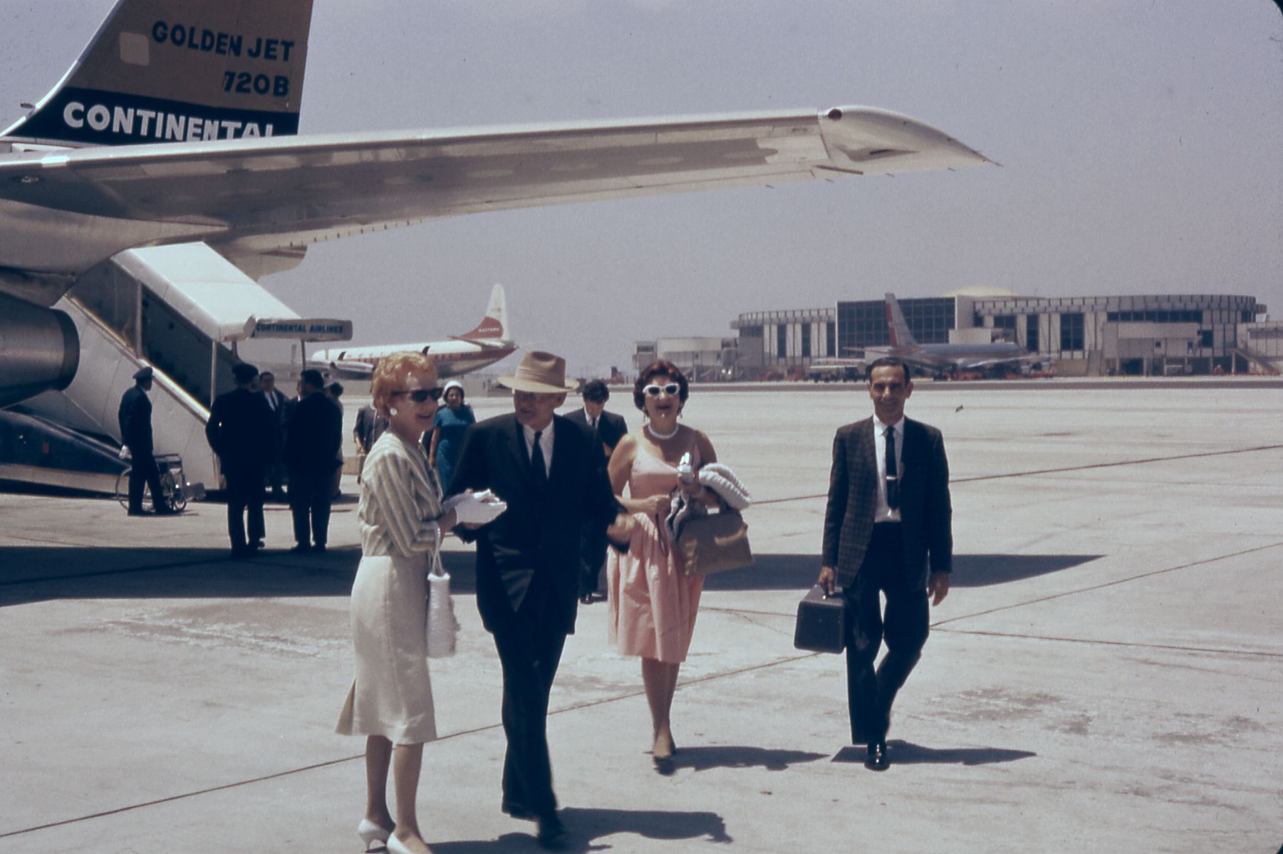 Continental Airline passengers arriving in July, 1962, before there were any jet-ways at LAX airline terminals.